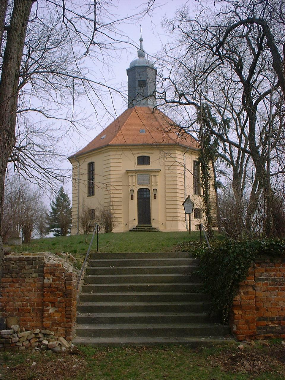 Church in Golzow in Brandenburg, Germany